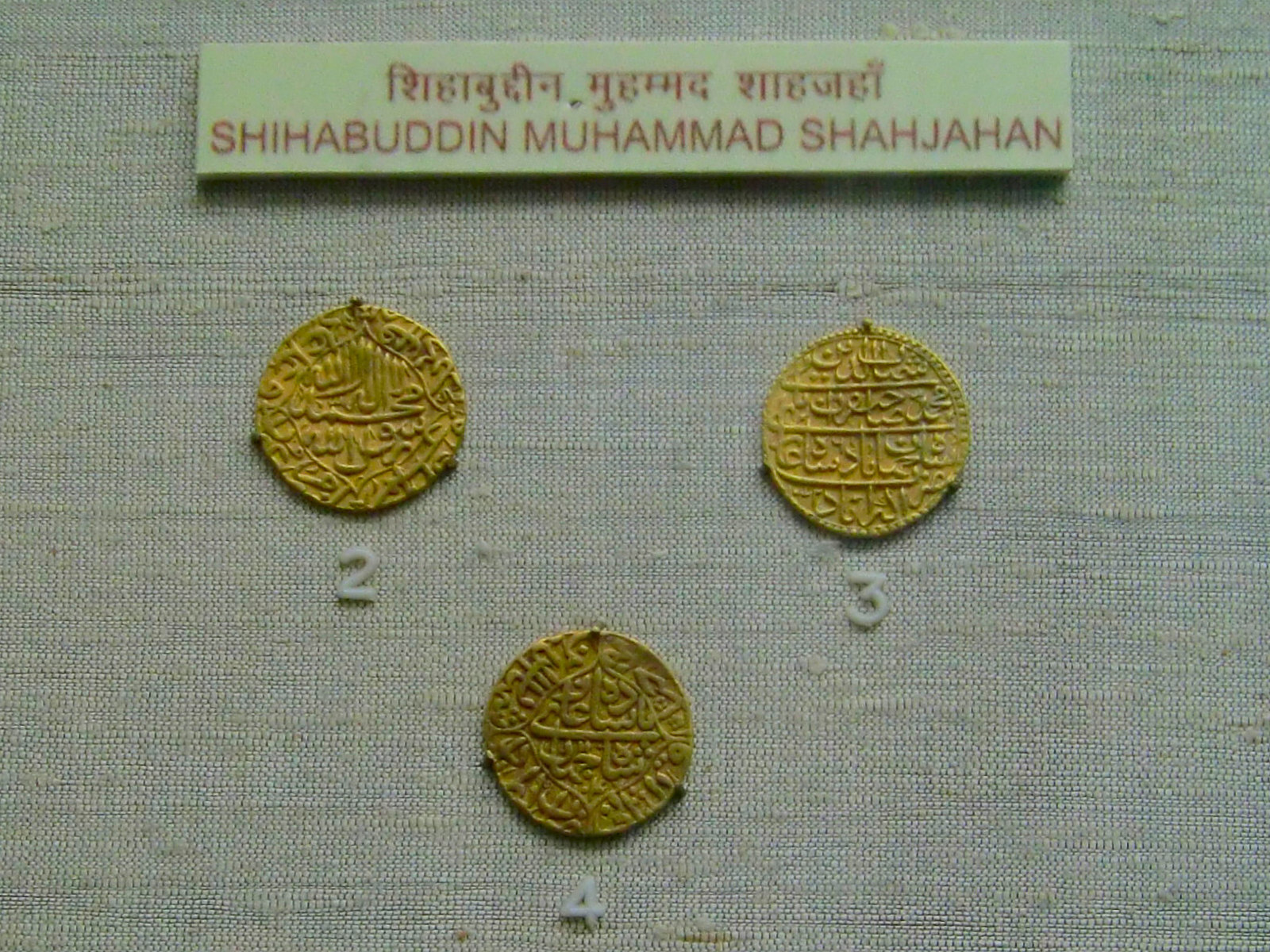 Mughal Empire Shah Jahan's gold coin National museum of India